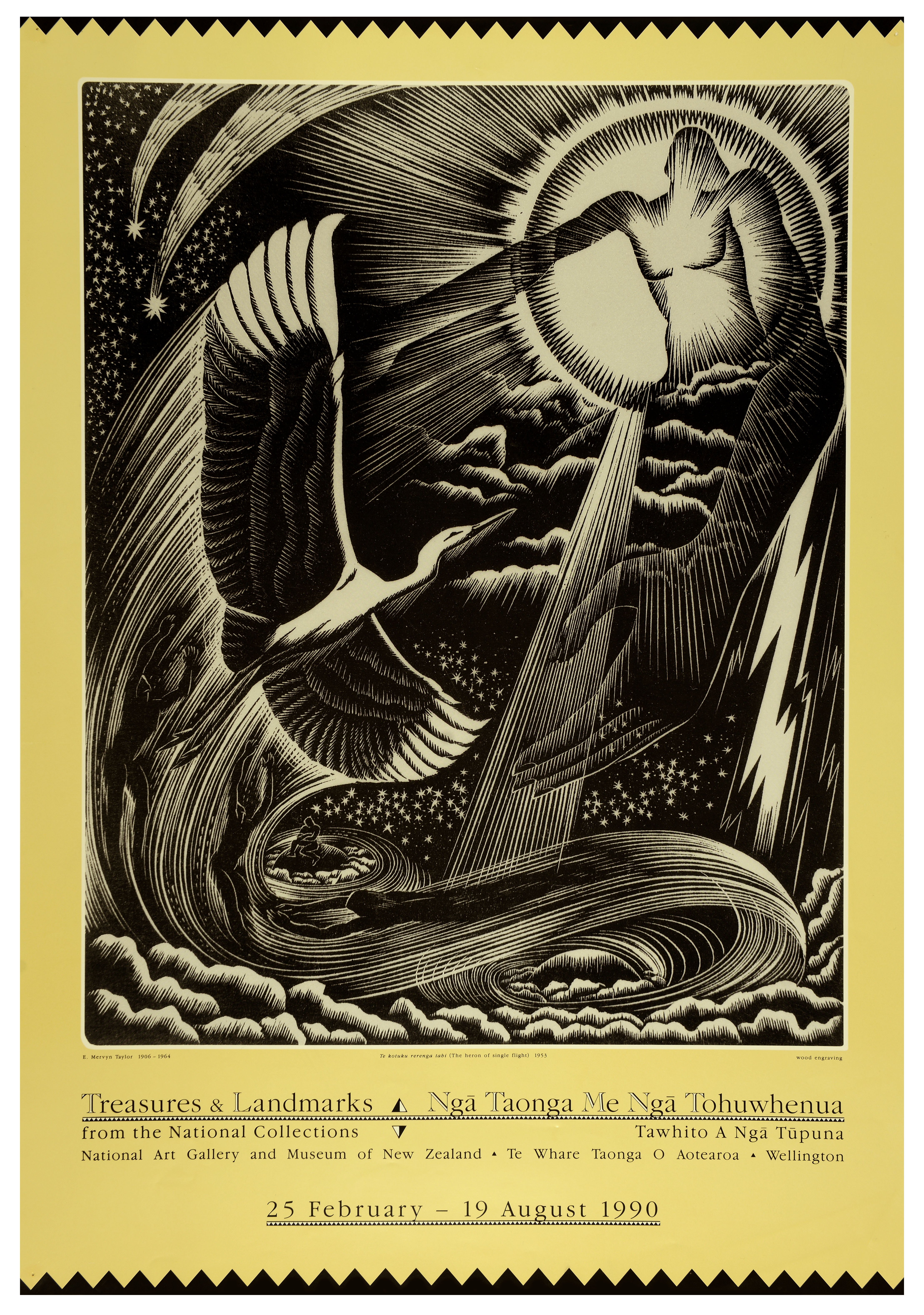 Twinkling in the winter skies of June, Matariki (the Māori name for the cluster of stars also known as the Pleiades) signals the Māori New Year. Traditionally, it was a time for remembering the dead, and celebrating new life. In recent times, observing Matariki has become popular again, with a resurgence of cultural activities to mark the occasion. Various Māori iwi celebrated Matariki at different times. Some held festivities when Matariki was first seen in the dawn sky; others celebrated after the full moon rose or at the beginning of the next new moon. At Archives New Zealand Te Rua Mahara o te Kāwangatanga we’re celebrating Matariki 2015 over the week of 15-19 June with records from our collection. Ka puta Matariki ka rere Whānui. Ko te tohu tēnā o te tau e! Matariki re-appears, Whānui starts its flight. Being the sign of the [new] year! This 1990 Museum of New Zealand exhibition poster features a woodcut by prominent artist E Mervyn Taylor (1906-1964), whose printmaking helped bring art closer to the general public. Commissioned for the visit of Queen Elizabeth II during 1954, Te Kōtuku Rerenga Tahi (1953) takes its title from Tāne’s travels to the twelfth heaven to bring back three baskets of knowledge. Tāne was accompanied by a kōtuku on his ascent. Apart from the naturalistic kōtuku, writes Douglas Horrell, the generalised figures evoke the cosmological nature of the subject, while “stars and comets, sunrays and bolts of lightning all jostle within the frame.” Archives Reference: ABLG W3781 Box 9/ 29 More images celebrating Matariki 2015 can be found by searching with the keyword ‘Matariki’ Material from Archives New Zealand Caption information from Te Ara The Encyclopedia of New Zealand, and Douglas Horrell’s ‘The Engaging Line: E. Mervyn Taylor’s Prints on Māori Subjects’